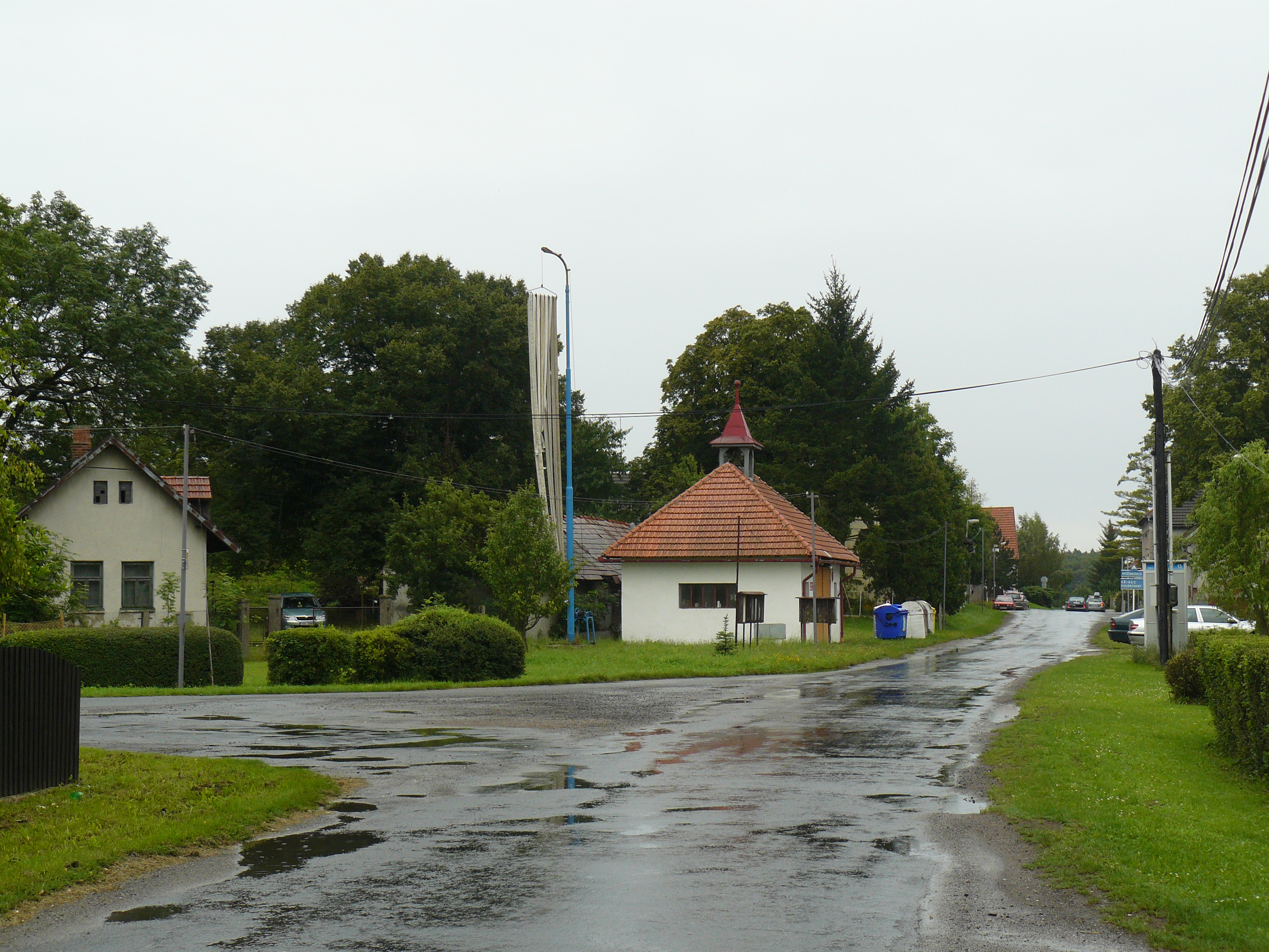 Košík - village in Czech Republic